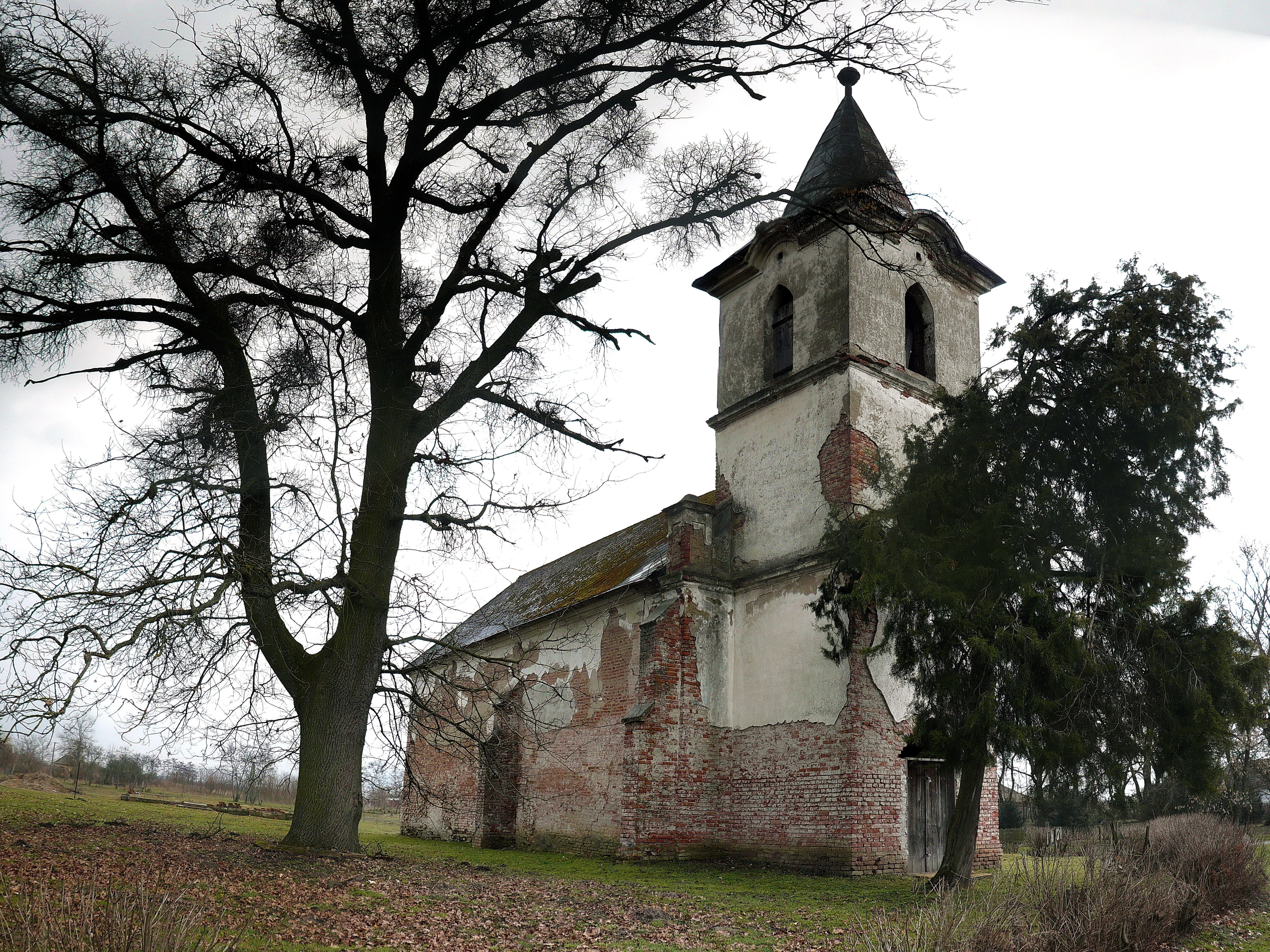 Reformed church of Nagygéc, abandoned settlement in Hungary, 40 years after the great floodings of the Szamos river.